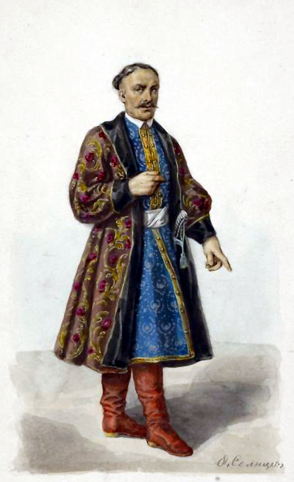 Officers of the Don Cossacks the beginning of the 18th century.